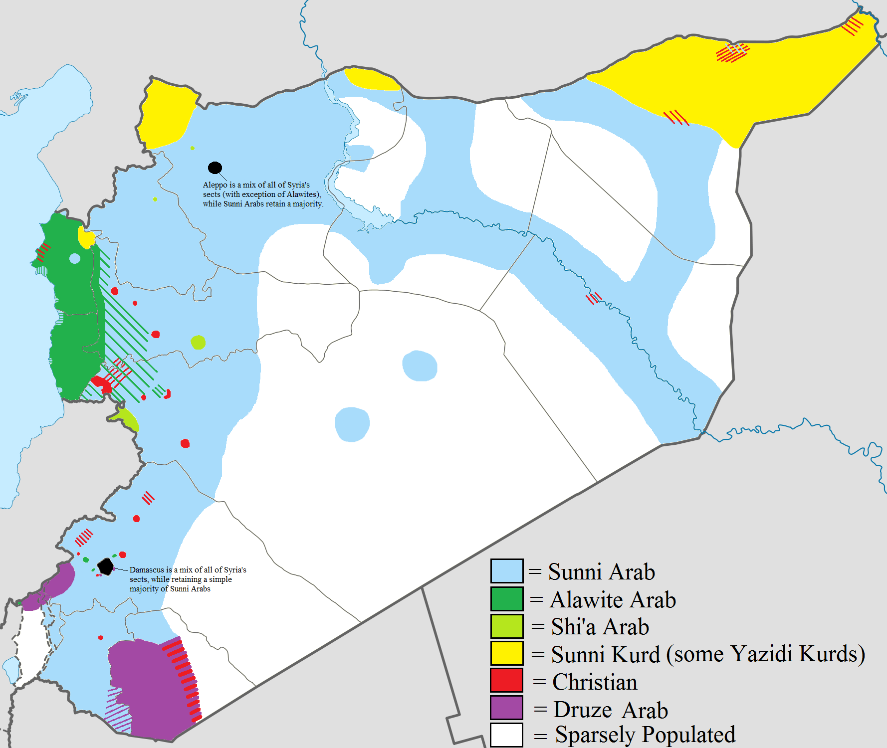 Map showing the ethnic and religious distribution of Syria's sects. Very useful map that helps clarify Syria's composition.